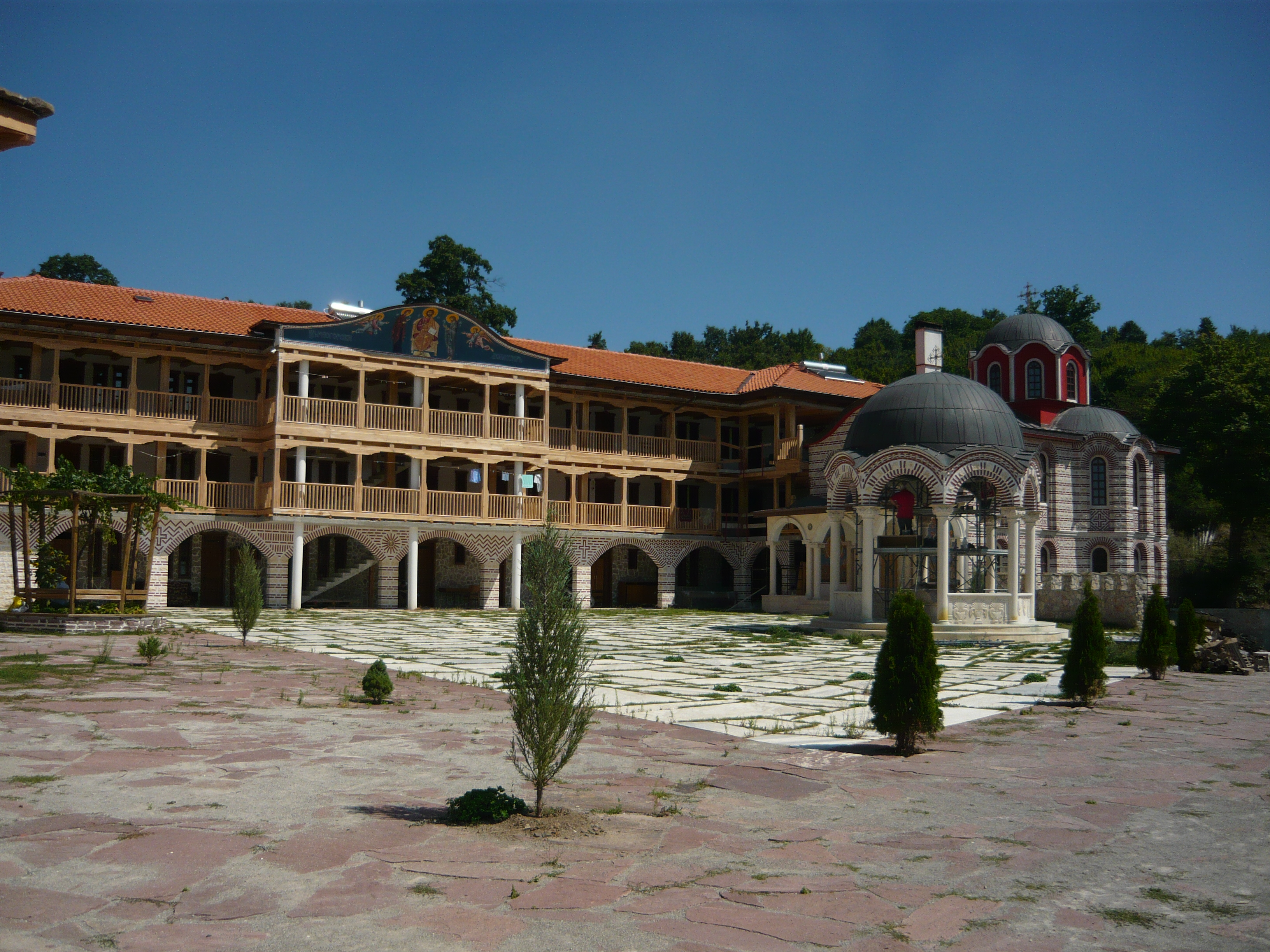 Gigintsi Monastery